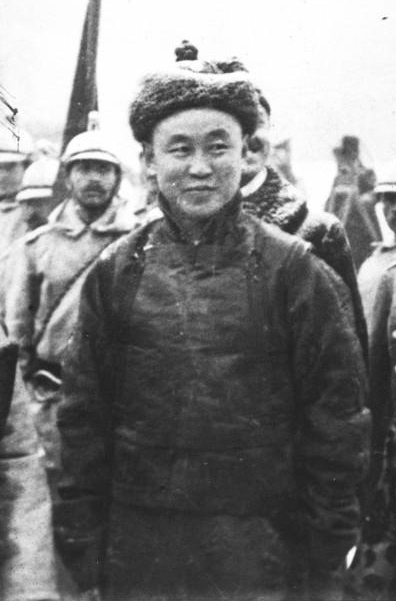 Mongolian Prime Minister Shirindambyn Namnansüren (1878-1919) Монгол: Төгс-Очирын Намнансүрэн (1878-1919)